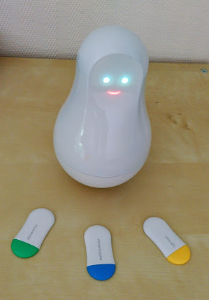 Connected object Mother and its cookies.